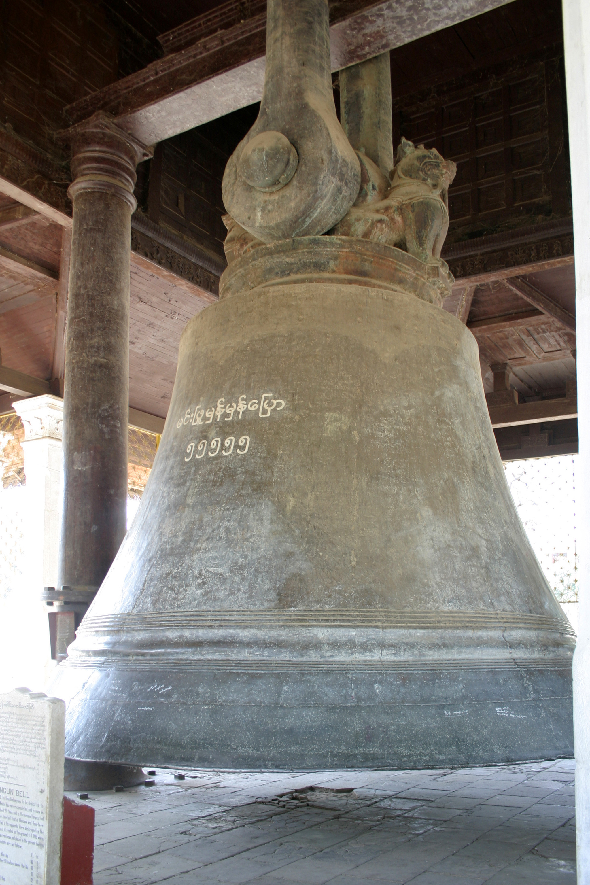 Mingun-Bell, Mingun, Myanmar